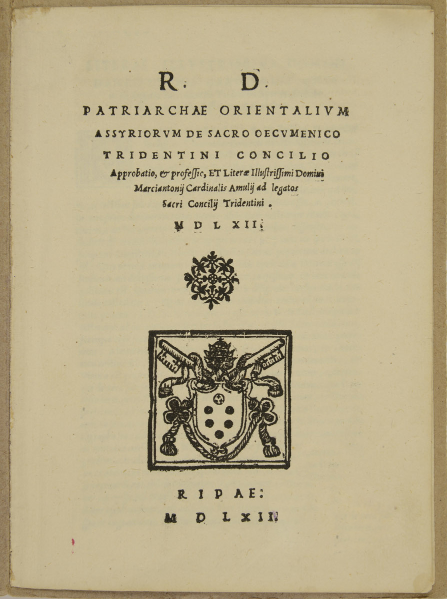 Patriarch of the Eastern Assyrians at the Sacred Ecumenical Council of Trent. Approval, and profession, and letters of Cardinal Marco Antonio Da Mula, ambassador to the Holy Council of Trent. 1562." - (Abdisu, R.D. patriarchae orientalium Assyriorum De sacro oecumenico Tridentini Concilio approbatio, & professio, et literae illustrissimi domini Marciantonij cardinalis Amulij ad legatos sacri Concilij Tridentini. MDLXII, Riva del Garda, Jacob Marcaria, 1562)